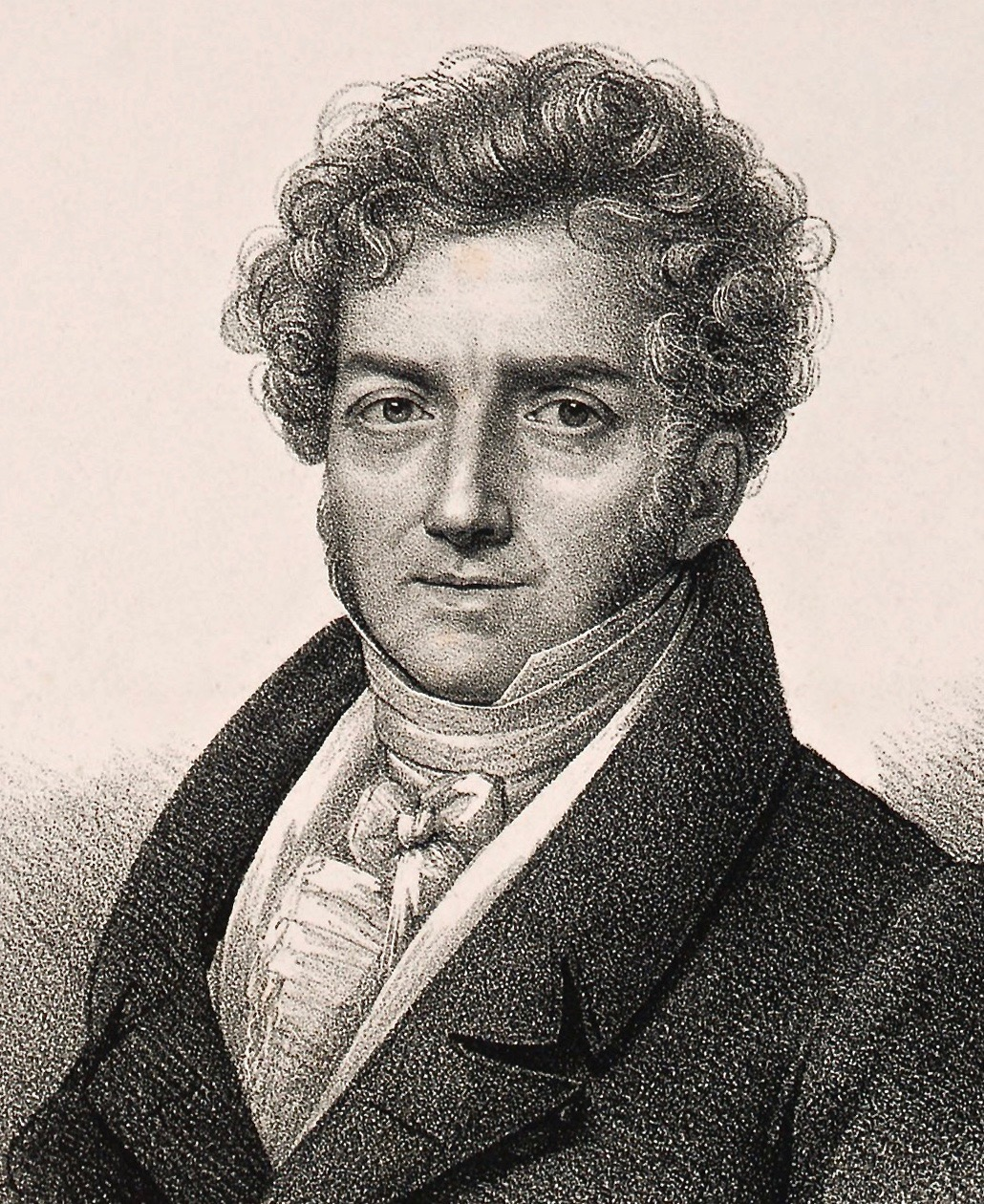 François-Adrien Boieldieu (1775-1834), French composer